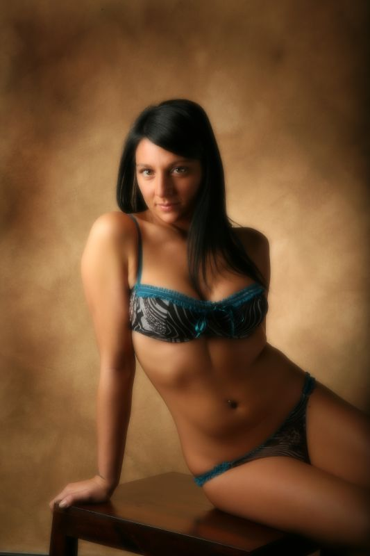 Young woman in dessous